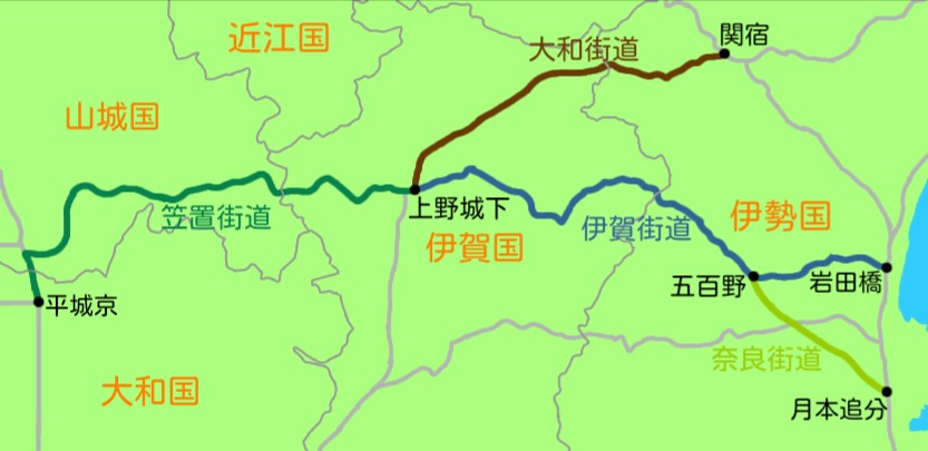 Igagoe-Naramichi